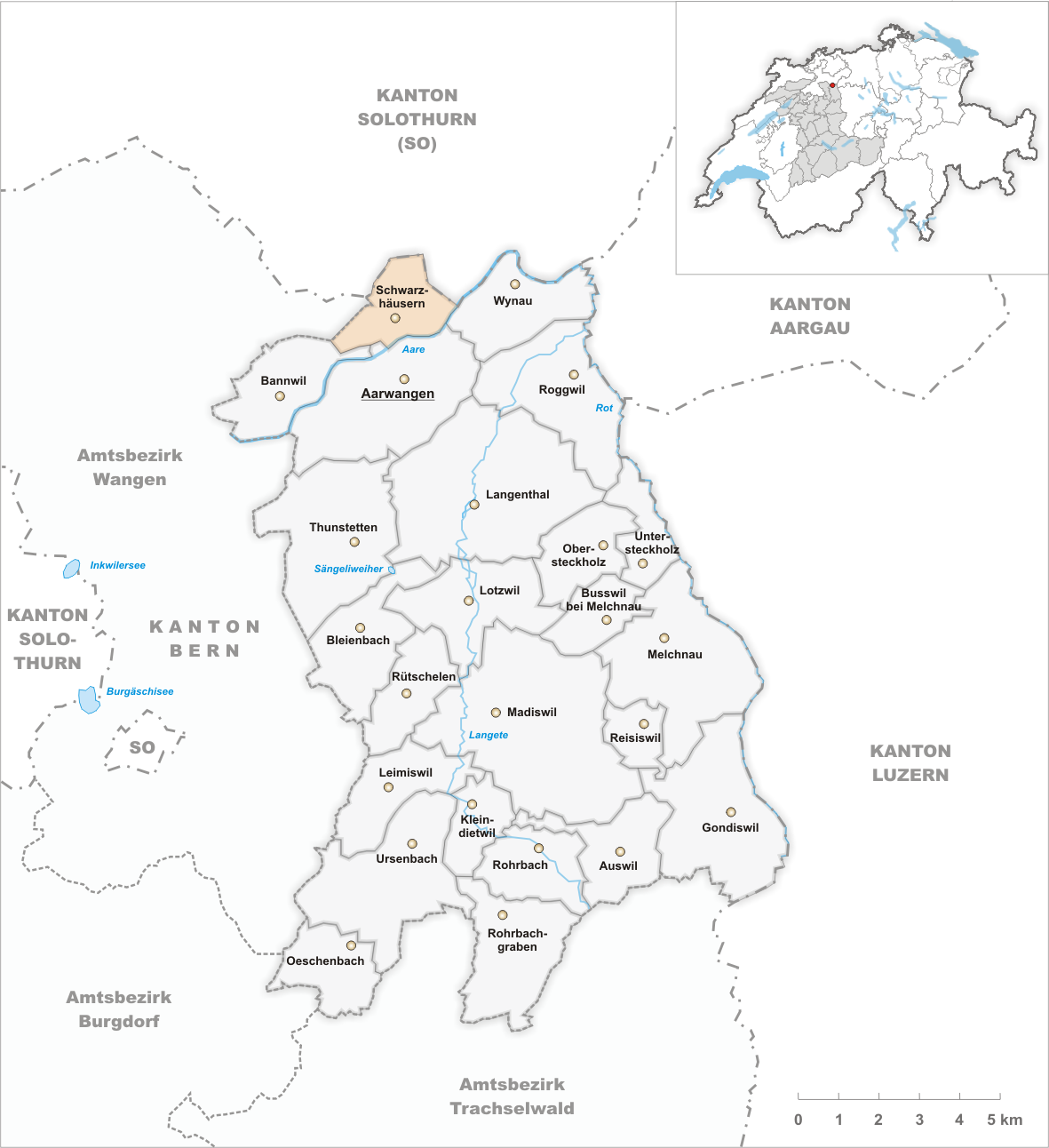 Municipality Schwarzhäusern